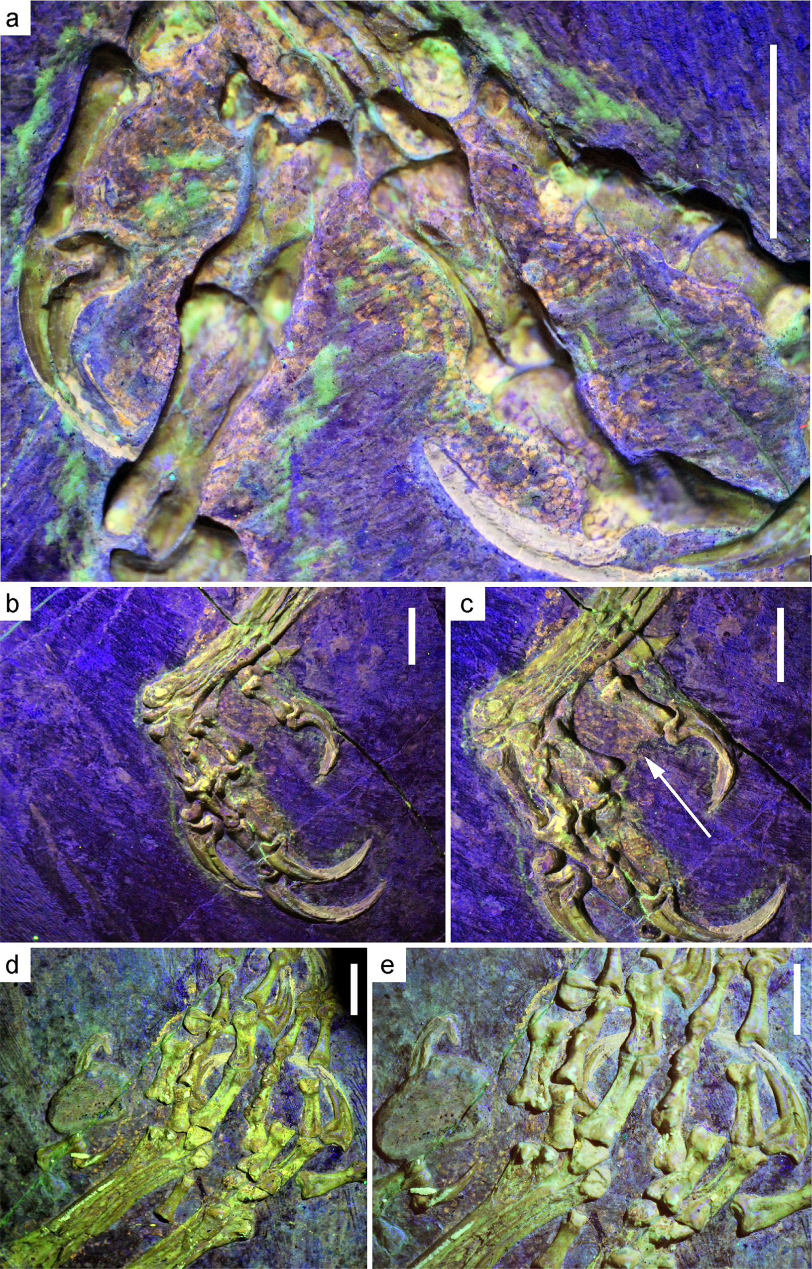 Photographs of the feet of IVPP V13156 and IVPP V13168. (A) Closeup of right foot, yellow longpass. Scale bar = 7 mm. Note the yellow-orange scales concentrated around the phalanx, not the joint (B) Left foot, yellow longpass. Scale bar = 7 mm (C) Close up of left foot, yellow longpass. Scale bar = 7 mm. Note the fleshy pad with scales indicated by the arrow. (D) IVPP V13168, yellow longpass. Scale bar = 5 mm (E) Close up of IVPP V13168, yellow longpass. Scale bar = 5 mm.